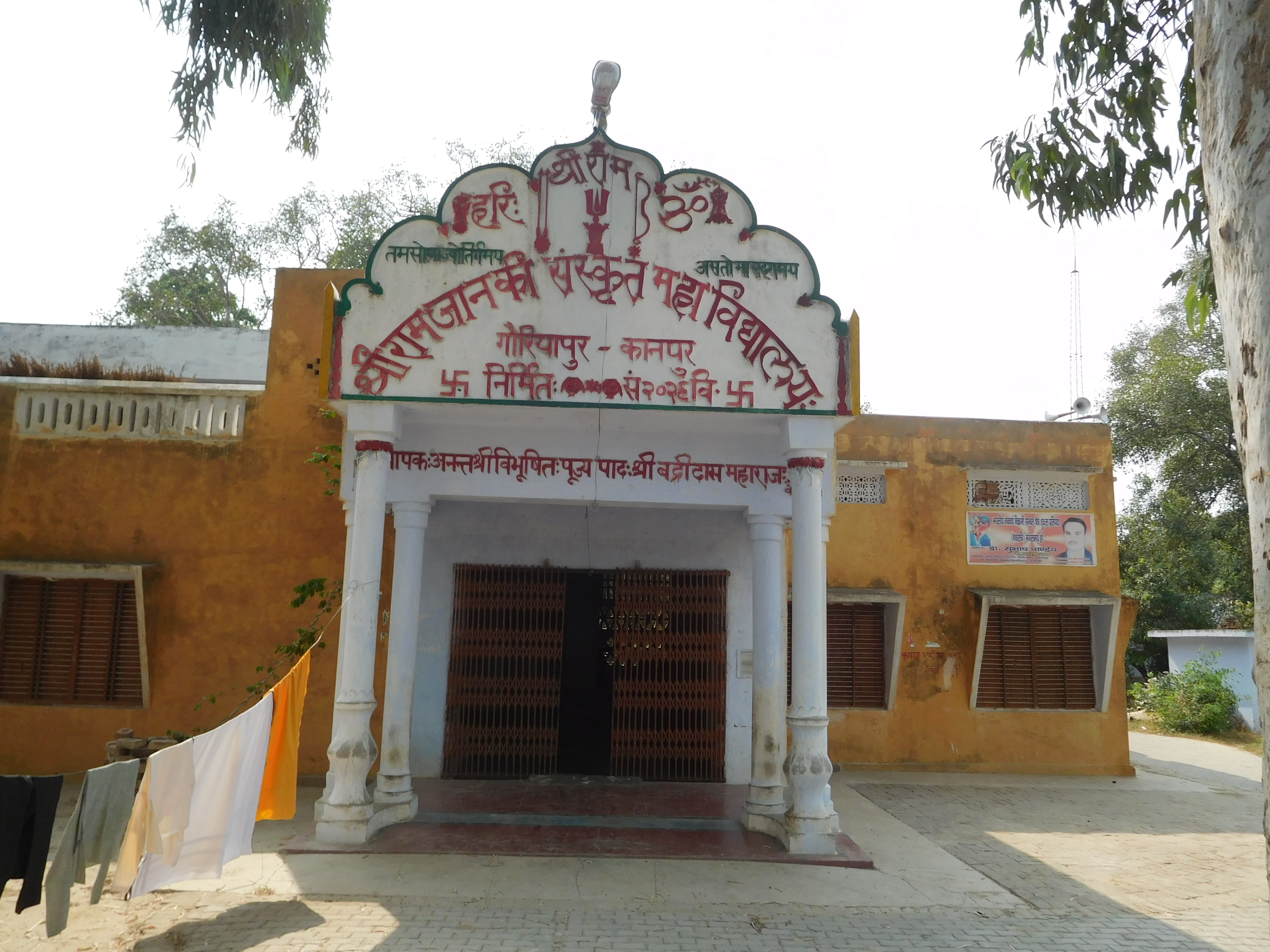 External view of Shri Ram Janki Sanskrit Mahavidylaya Gauriyapur, Akbarpur,Kanpur Dehat,U.P. ,India.